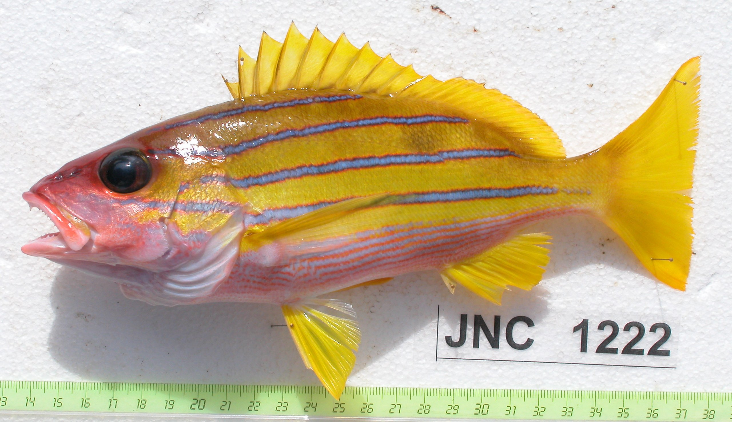 Lutjanus kasmira. Lateral view. Locality: near Récif Toombo, off Nouméa, New Caledonia. Fork Length 225 mm, Weight 190 grams, date 10 August 2004.